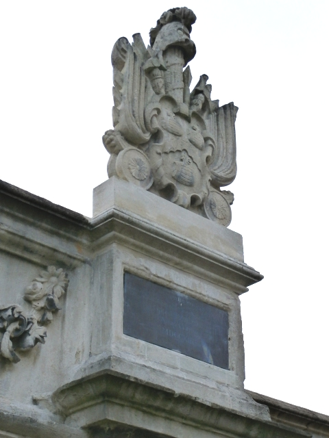 Detail from top of east parapet of Queen Anne's Walk colonnade, Barnstaple, Devon, showing the arms of Robert Incledon (1676-1758) of Pilton House, Pilton, near Barnstaple, a lawyer of New Inn, London, a Clerk of the Peace for Devon, Deputy Recorder of Barnstaple and twice Mayor of Barnstaple, in 1712 and 1721. He built Pilton House in 1746. Above is a plumed helm placed on a fasces, part of an antique trophy of arms. Below is a brass tablet inscribed in Latin: Faciendum curavit Robertus Incledon Generosus Oppidi Praefectus Anno Christi MDCCXIII ("Robert Incledon, Esquire, Prefect (i.e. Mayor) of this town, supervised the making. 1713")